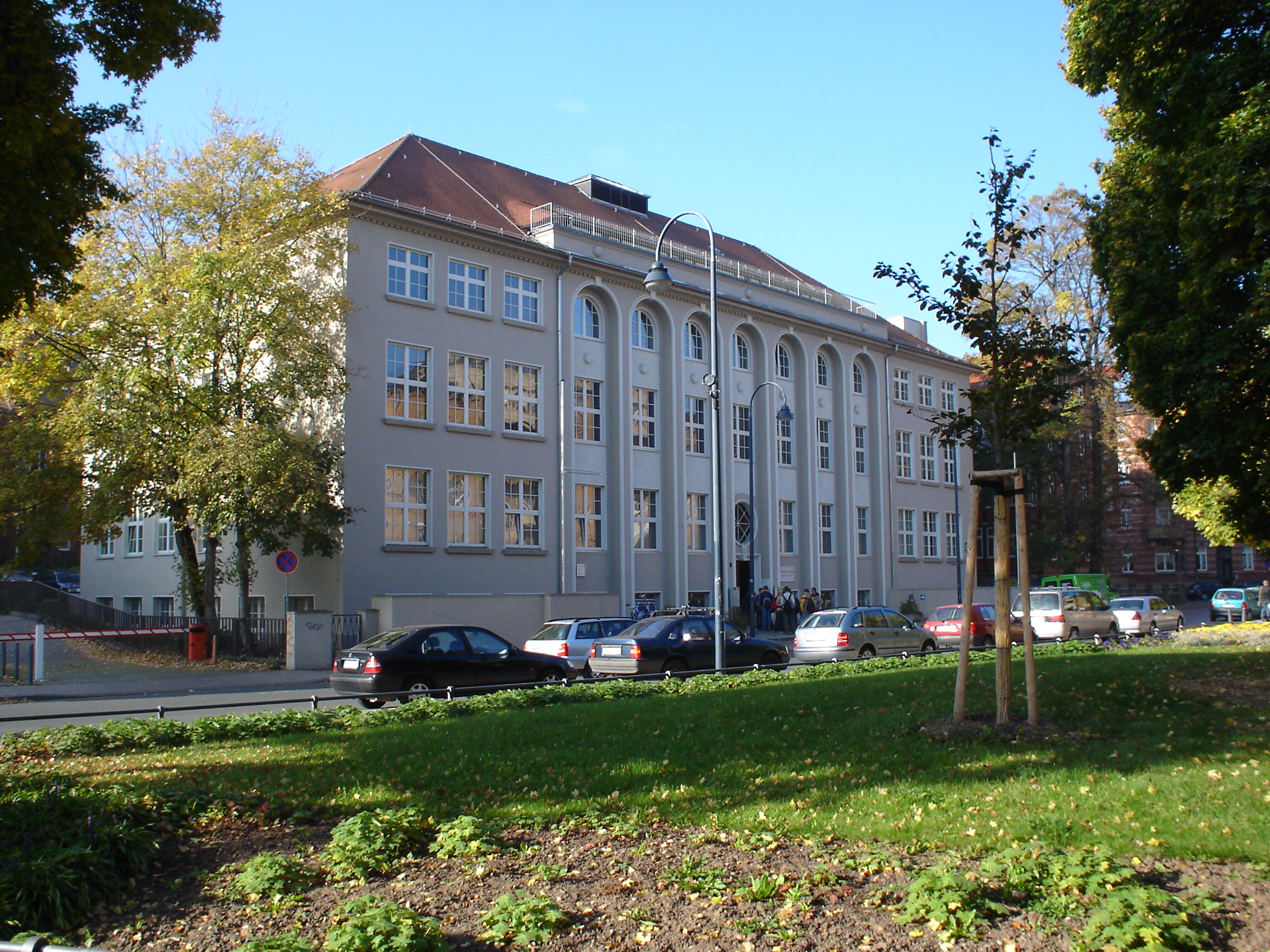 Front of the Optical Museum Jena. Foto shot at 18.10.2005.